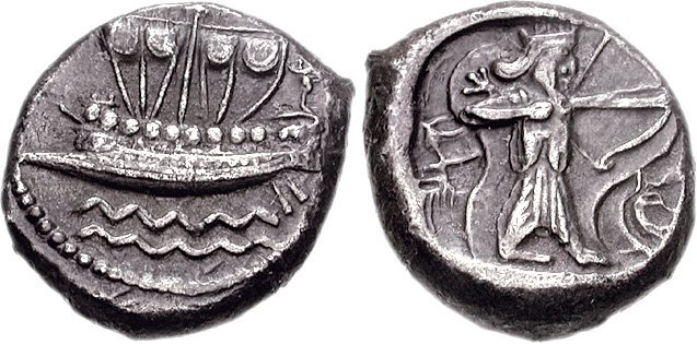 PHOENICIA, Sidon. Uncertain king. Circa 435-425 BC. AR 0.5 Shekel (7.10 g, 12h)